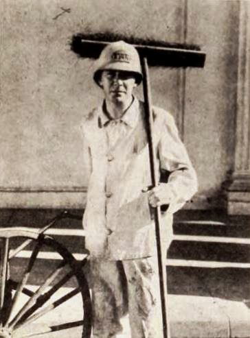 Still from the American comedy film Hold Your Horses (1921) with Tom Moore, on page 158 of the December 25, 1920 Exhibitors Herald.